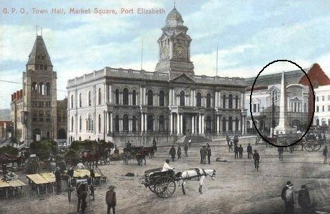 G.P.O., Town Hall, Market Square, Port Elizabeth